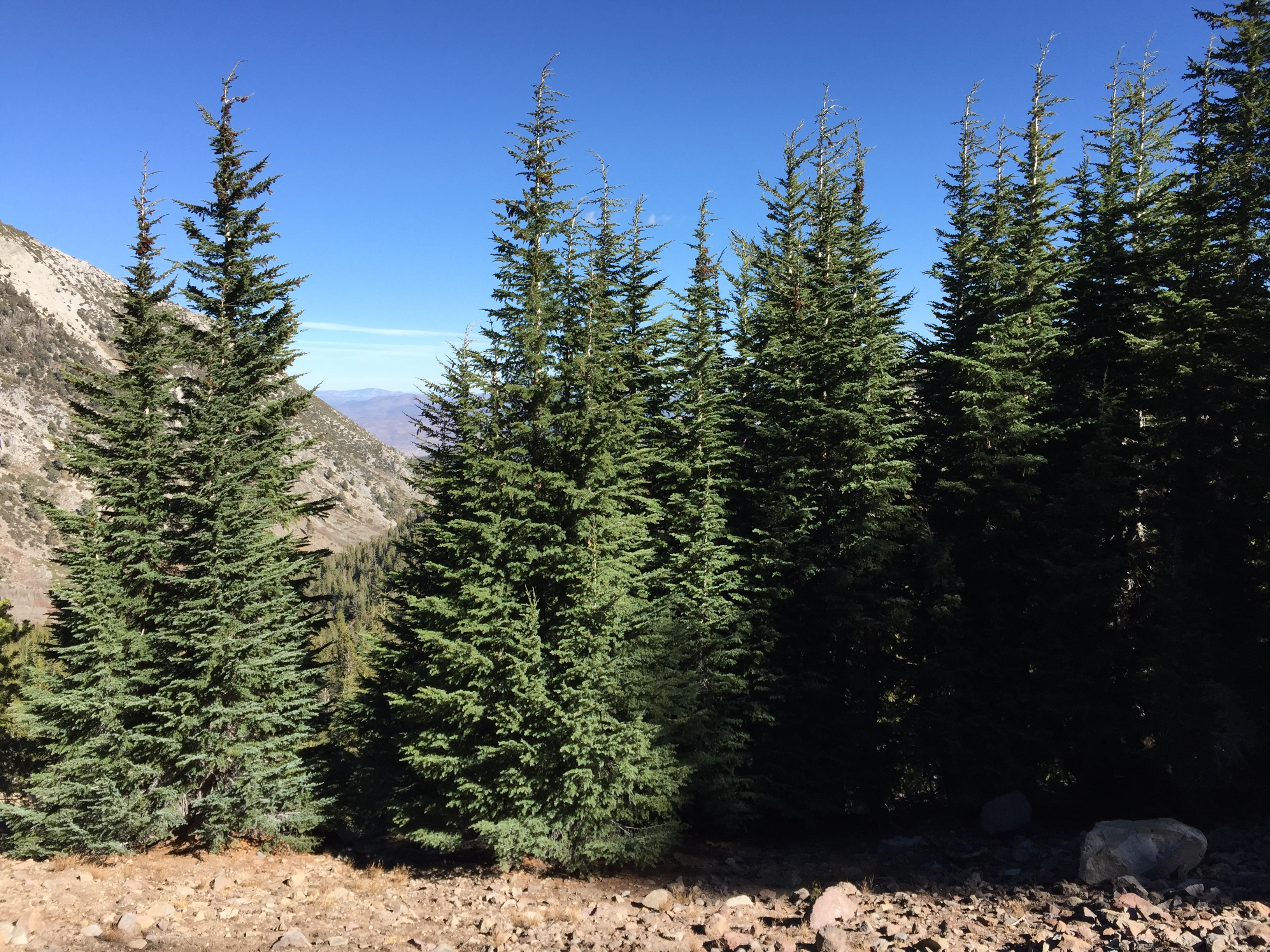 A grove of Mountain Hemlock along the Mount Rose Trail about 2.1 miles northwest of Mount Rose Summit, Nevada